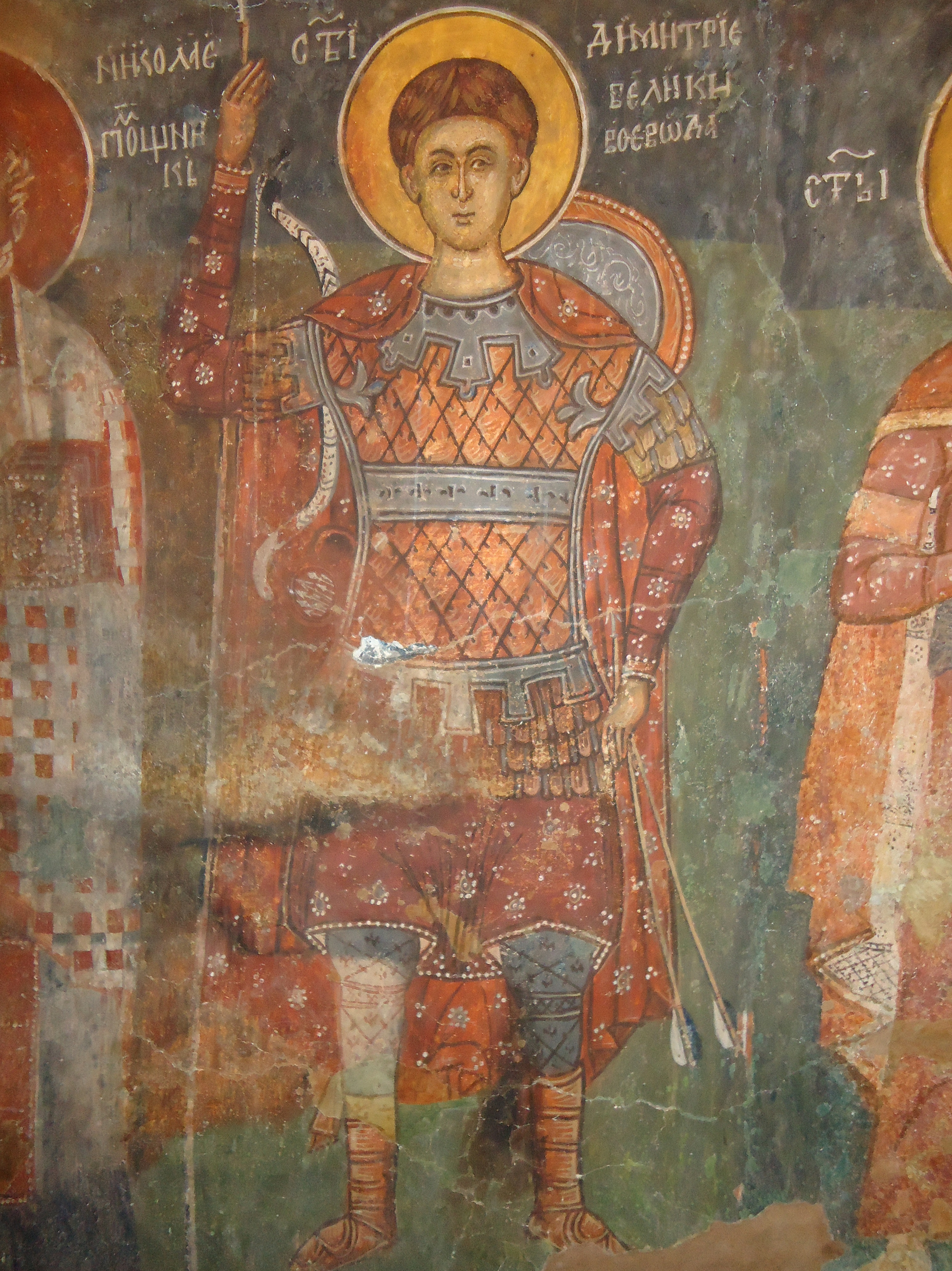 Church of St Demetrius, Boboshevo